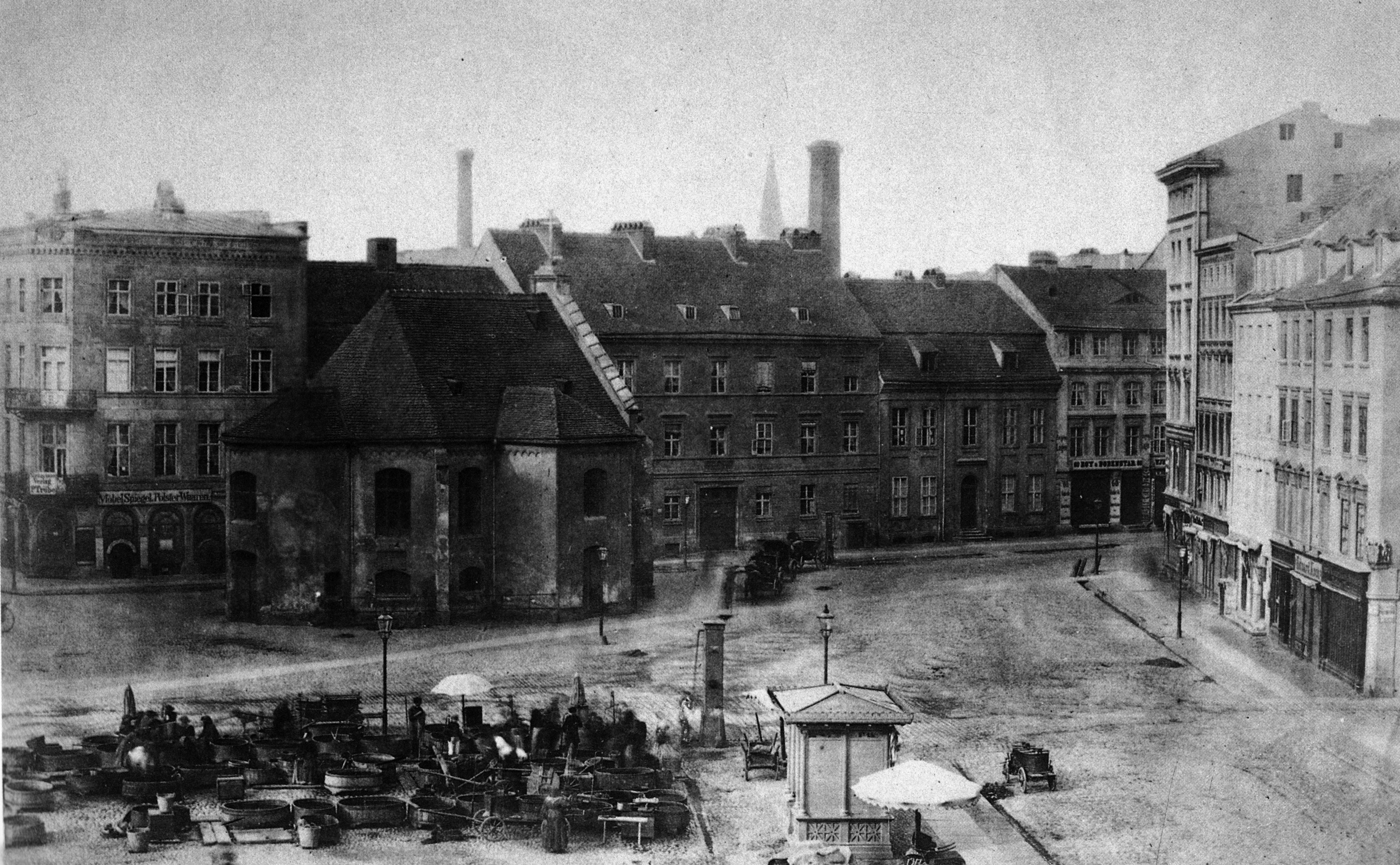 The Spittelmarkt (“ho-spital market”) in Berlin with the church of Gertrauden Hospital at its center. The church was torn down in 1881.